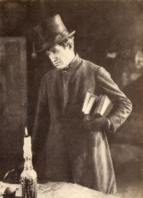 Still from the American film A Poor Relation (1921) with Will Rogers, on page 35 of the November 1921 Photoplay.